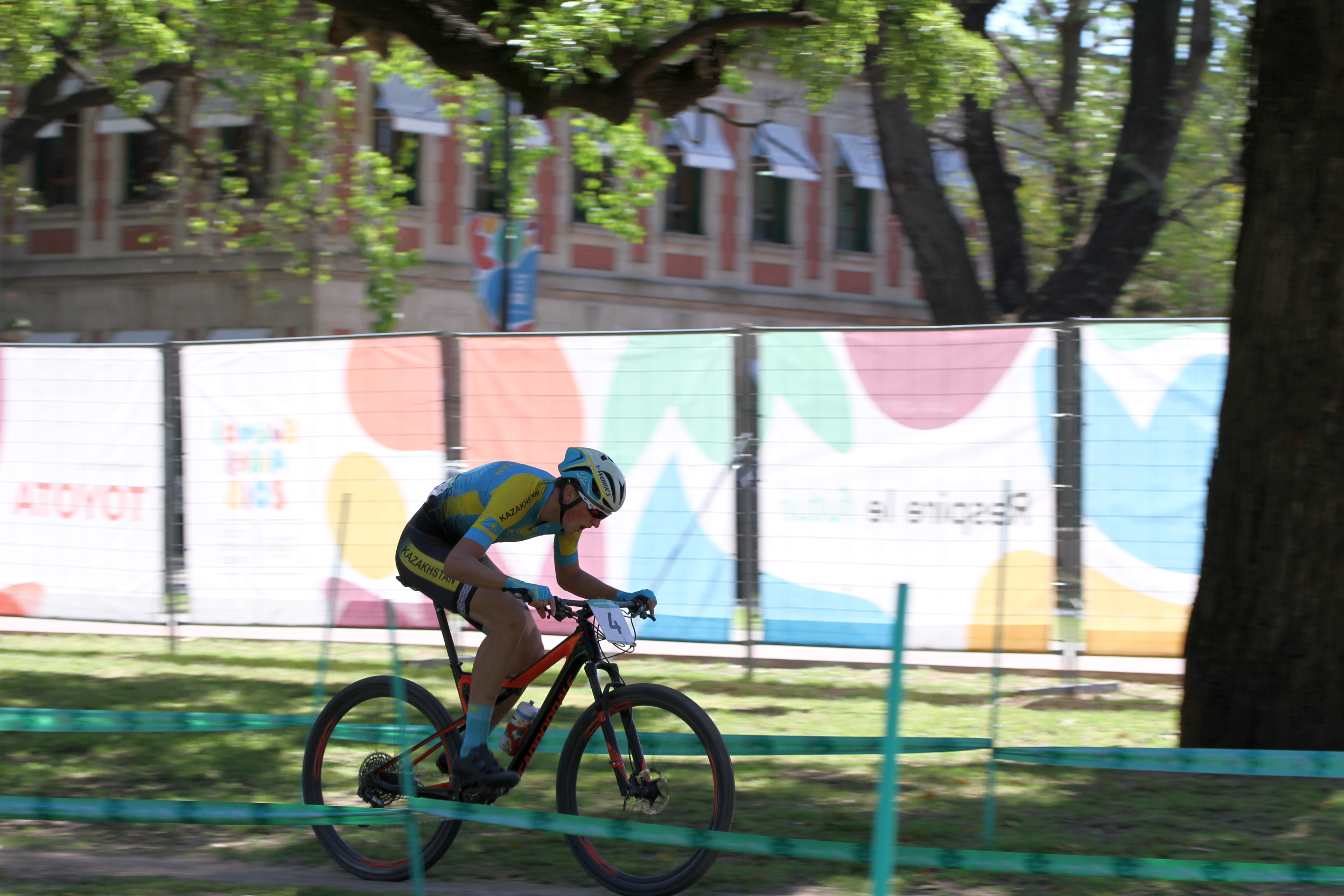 Cycling at the 2018 Summer Youth Olympics – Men's Combined Criterium – XCC Qualification on 16 October 2018.